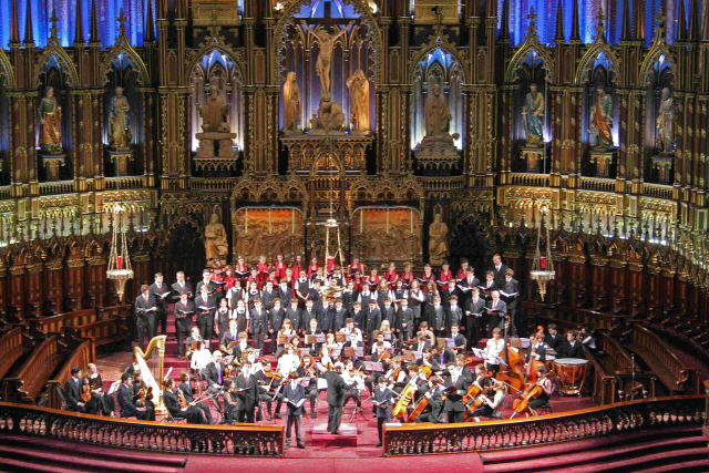 The Child Choir of Ile-de-France and the Young Choir of IdF performing at the Notre-Dame Basilica of Montreal - 2007.